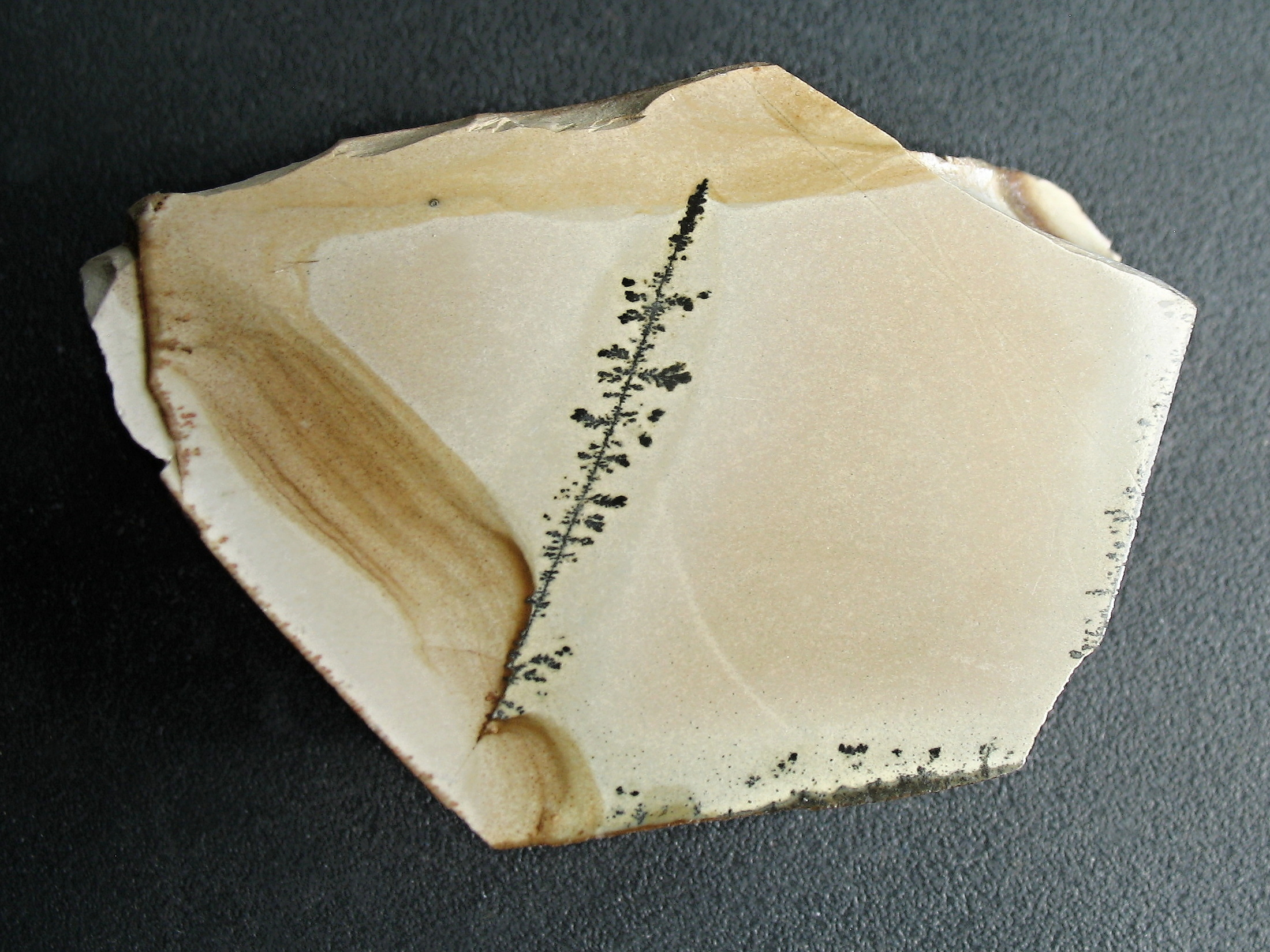 Porcellanite from quarry Bučník near Komňa, Moravia, Czech Republic